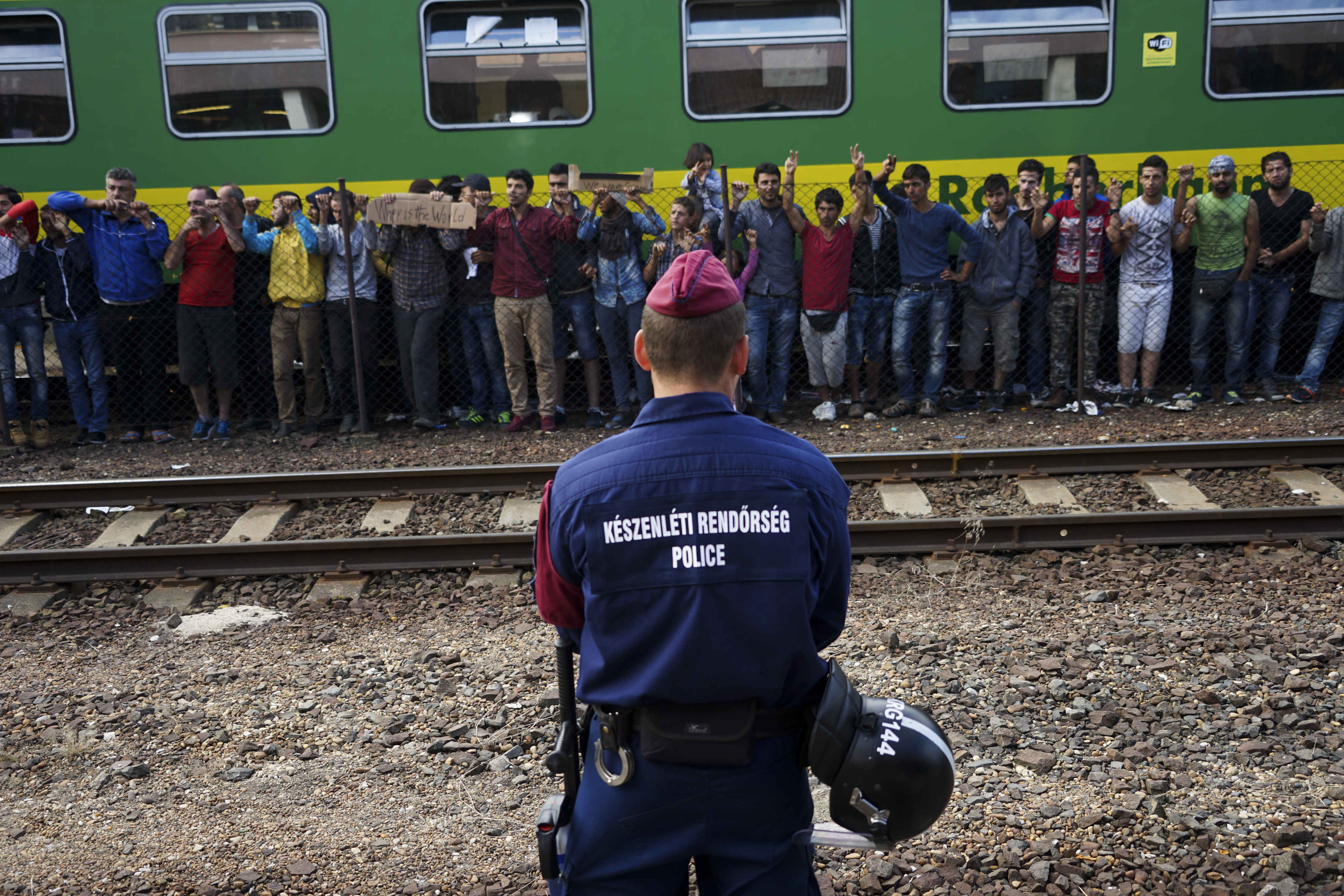 Syrian refugees protest at the platform of Budapest Keleti railway station. Refugee crisis. Budapest, Hungary, Central Europe, 4 September 2015.